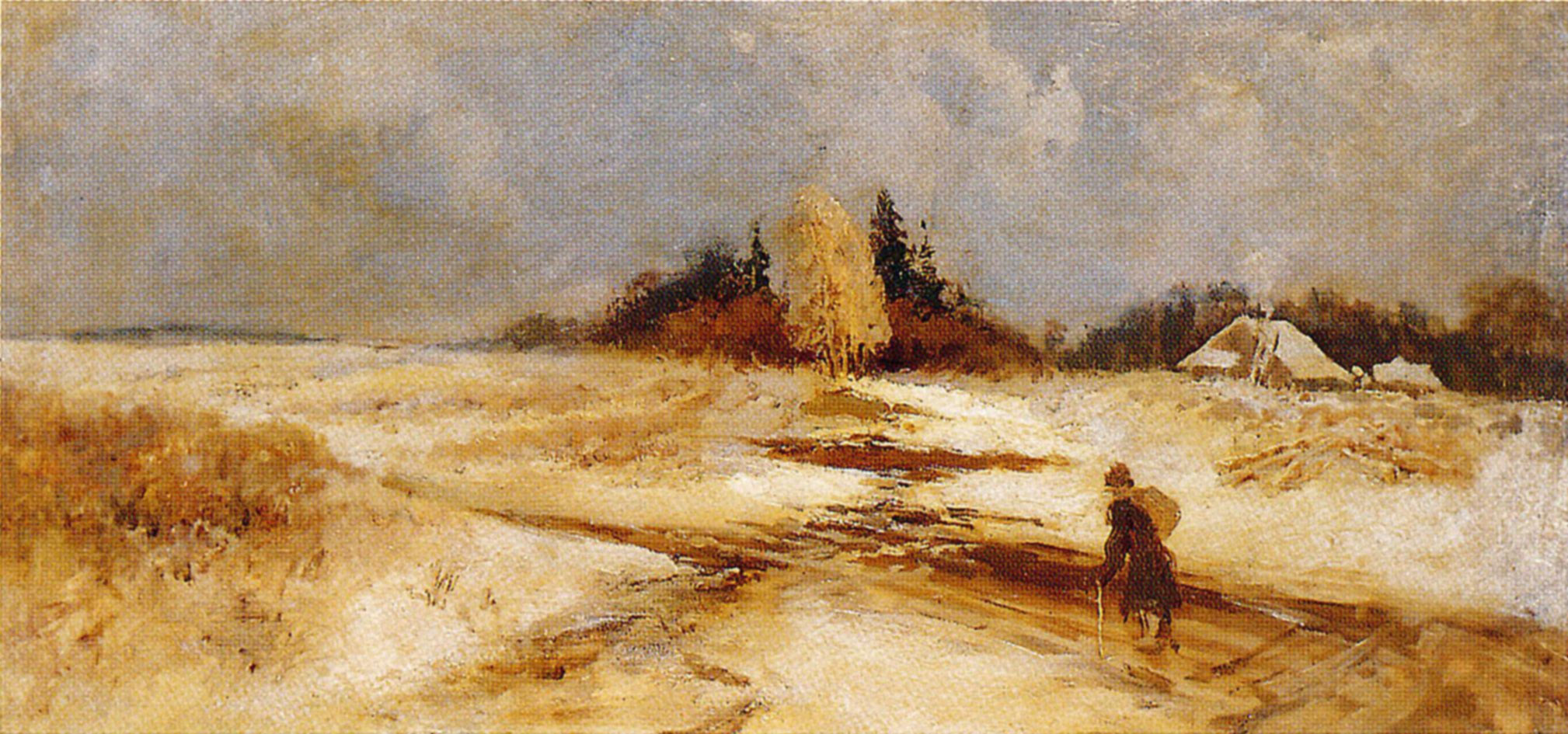 Thaw (study) (painting by Fyodor Vasilyev)